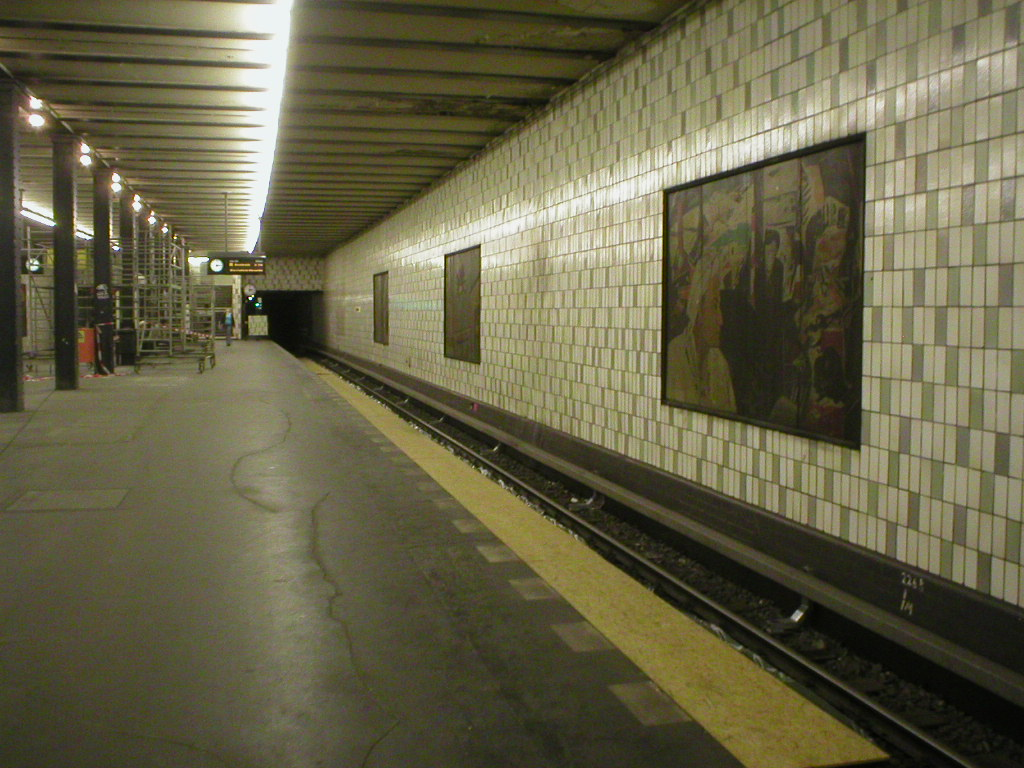 the underground statoin Weberwiese before the renovation 2003, line U5, of the Berlin U-Bahn, Germany